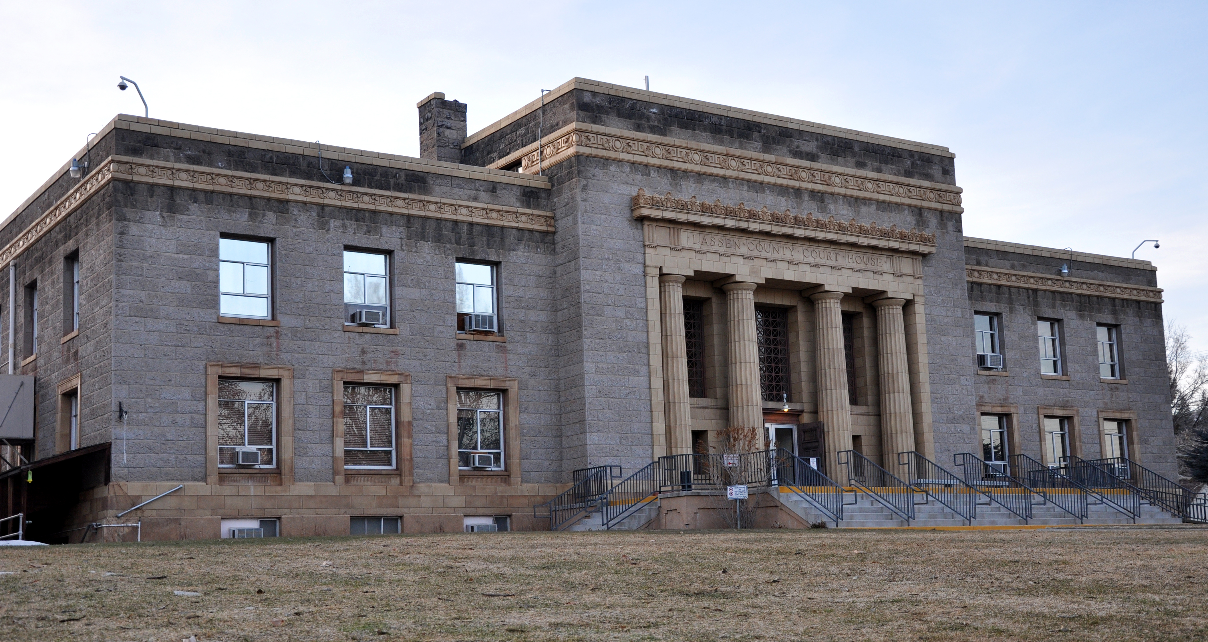 Lassen County Courthouse in Susanville in the U.S. state of California